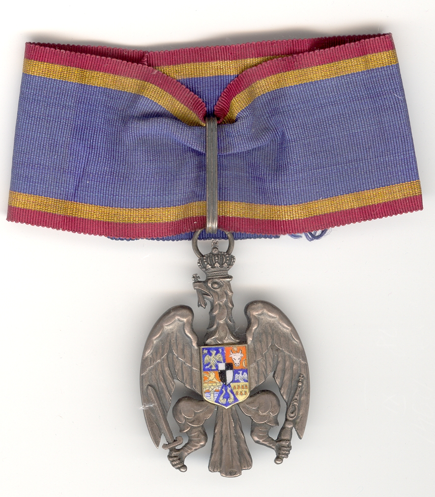 Romanian Order of the Vulture.